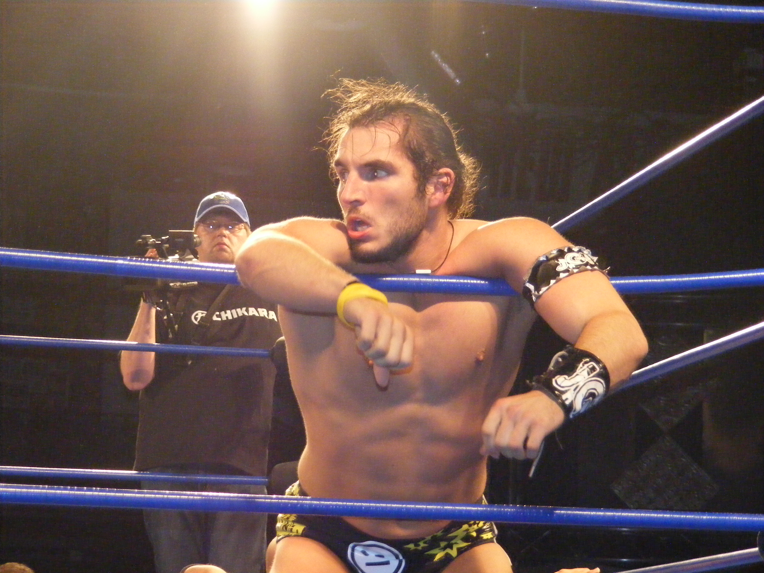 Professional wrestler Johnny Gargano at the Chikara King of Trios show in April 2010 in Philadelphia, PA.